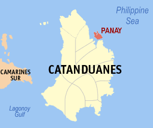 Panay Island in the Philippine provincie of Catanduanes